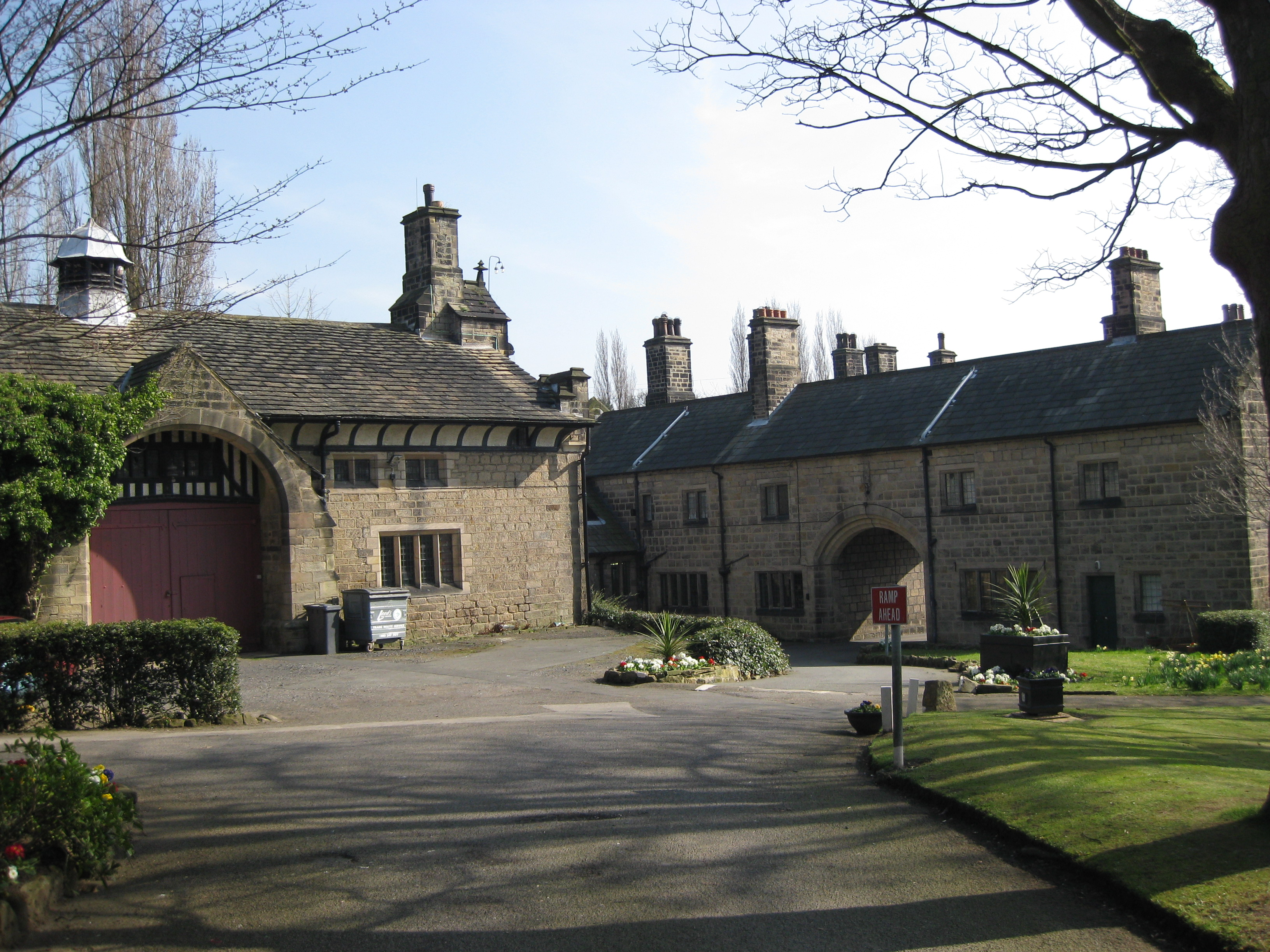 Carr Manor, Stonegate Road, Meanwood, Leeds LS6. A 17th century house greatly extended in 1881.